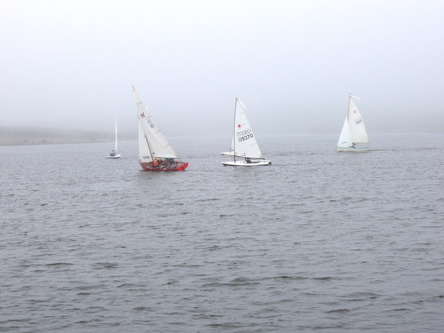 Sailing on Upper Tamar Lake South West Lakes Trust has a watersports centre on Upper Tamar Lake, see their website and the Upper Tamar Lake Sailing Club website . Photo taken on a misty Sunday afternoon.